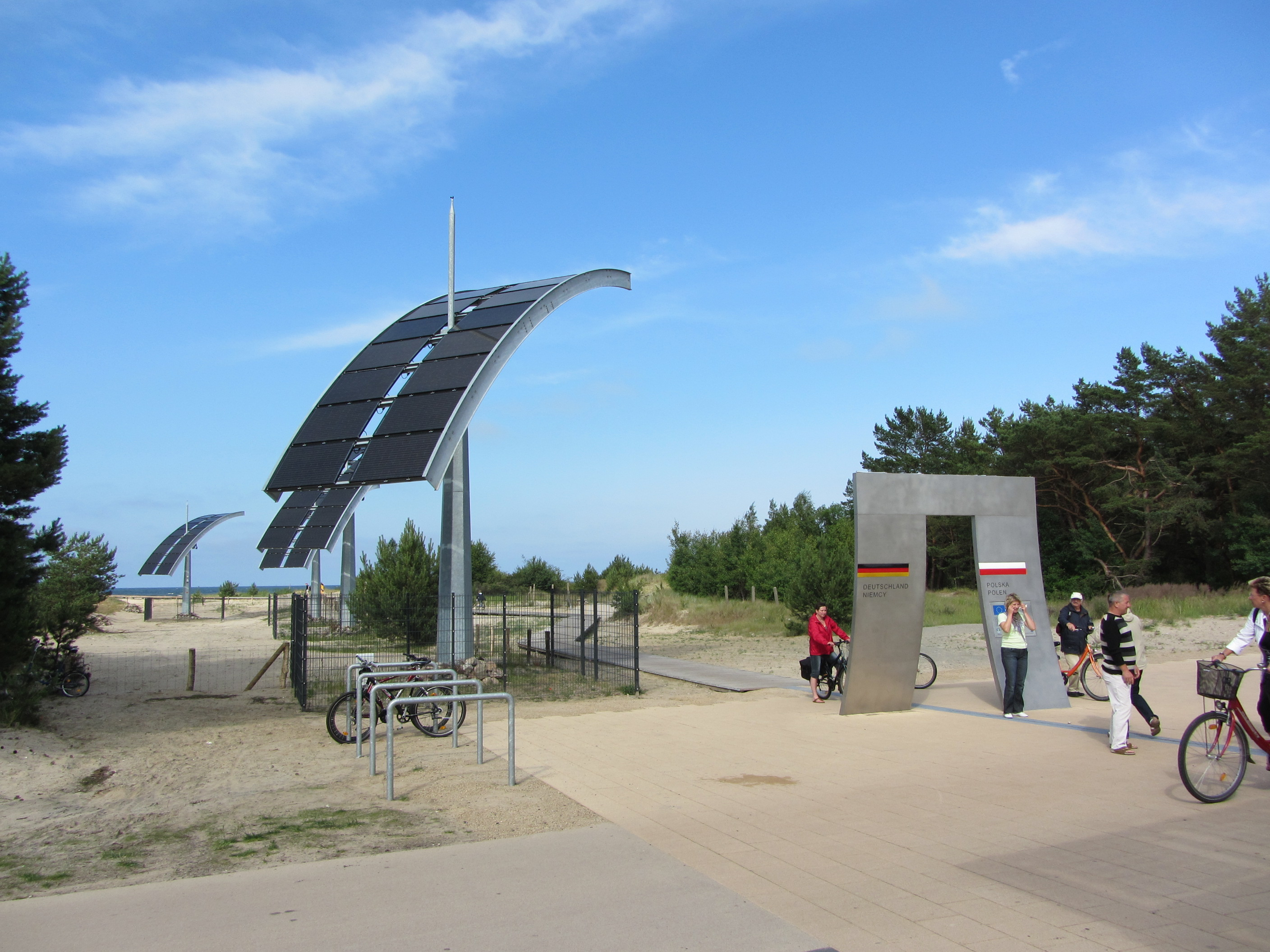 German-Polish border between Ahlbeck and Świnoujście